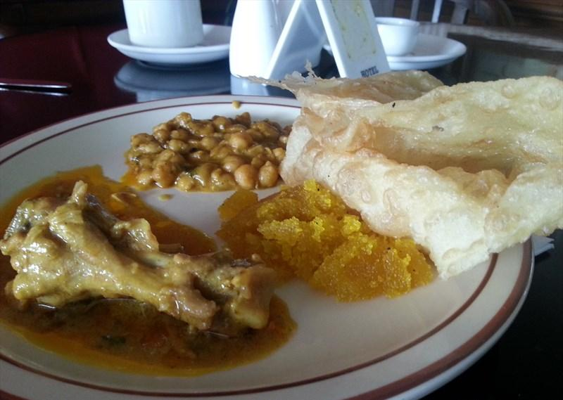 Nihari & Halwa Puri - Breakfast of every Lahori